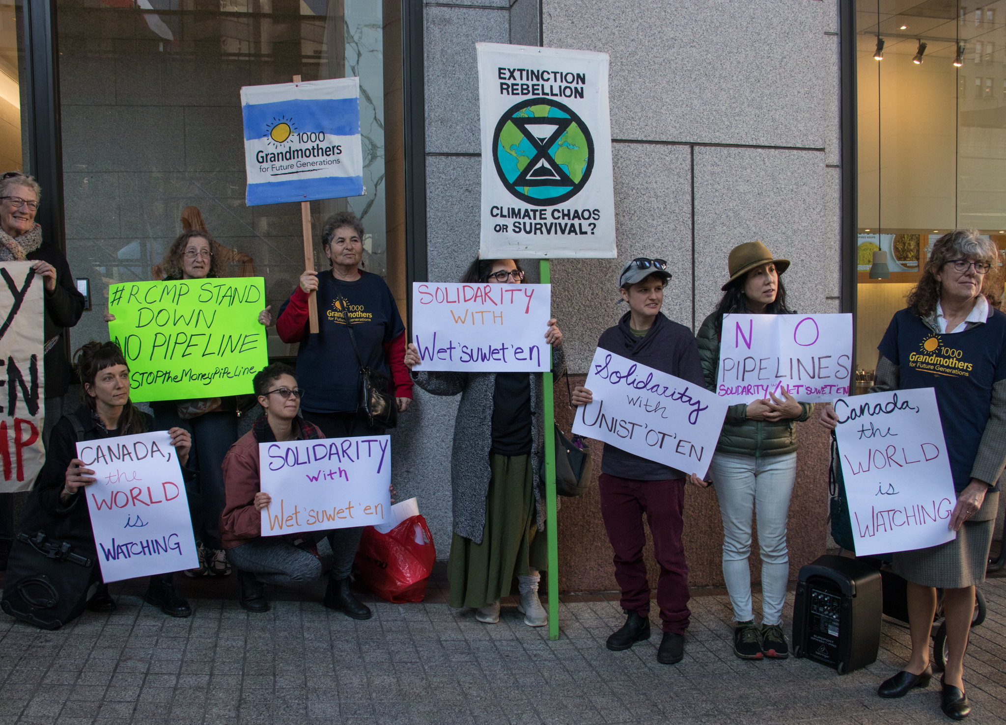 Protesters gather outside the Canadian consulate in San Francisco, California on February 7, 2020 in solidarity with Wetʼsuwetʼen hereditary chiefs who oppose construction of the Coastal GasLink Pipeline. The demonstrators hold signs that say "1000 Grandmothers for Future Generations", "Extinction Rebellion Climate Chaos or Survival?", "#RCMP stand down no pipeline #STOPTheMoneyPipeLine", "Canada, the world is watching", "Solidarity with Wetʼsuwetʼen", "Solidarity with Unistʼotʼen", and "No Pipelines Solidarity w/ Wetʼsuwetʼen".